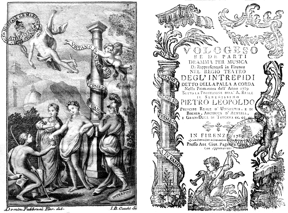 Antonio Brunetti - Vologeso - titlepage of the libretto - Florence 1789